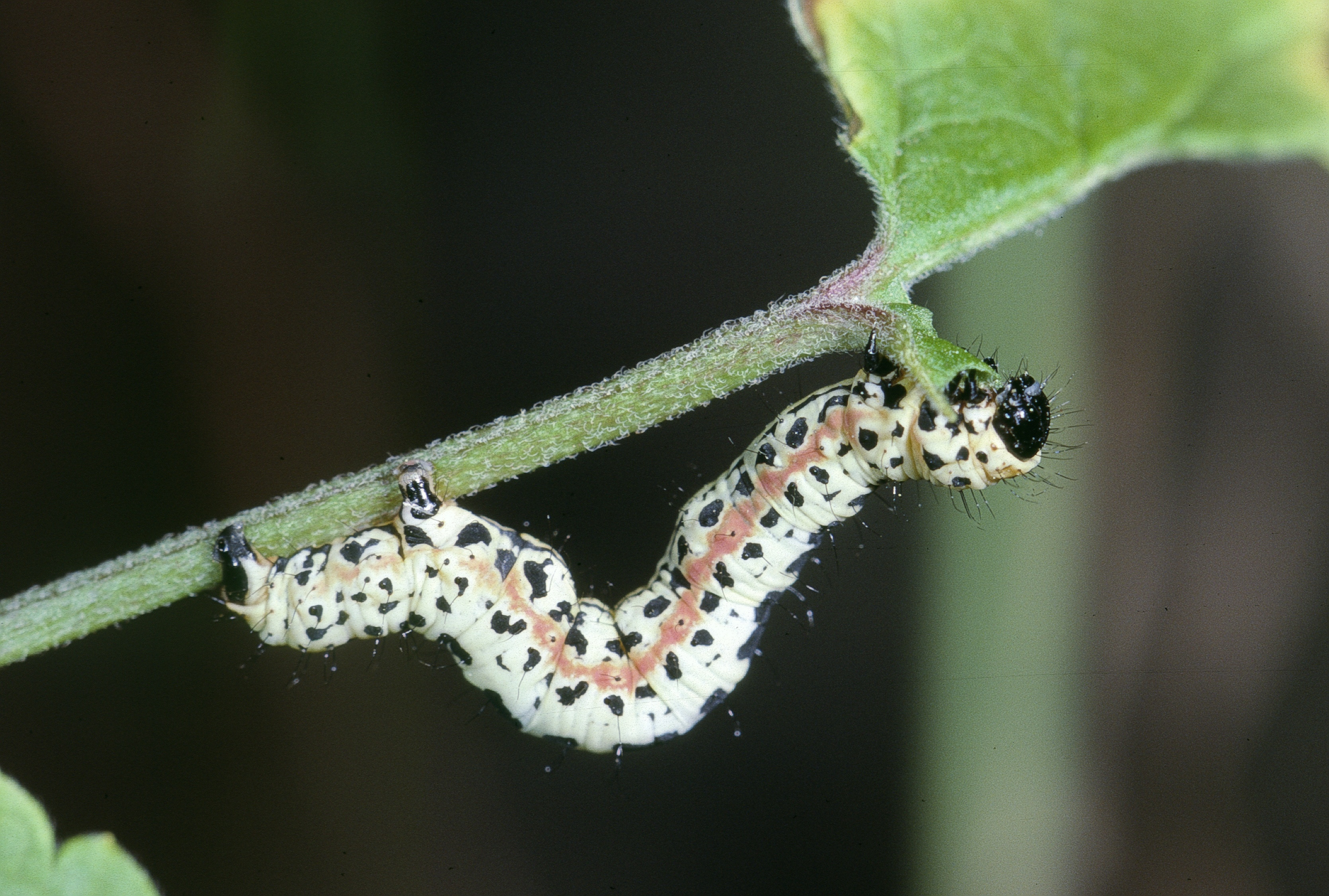 Caterpillar of the Magpie Moth (Abraxas grossulariata) photographed in Calvados in France.